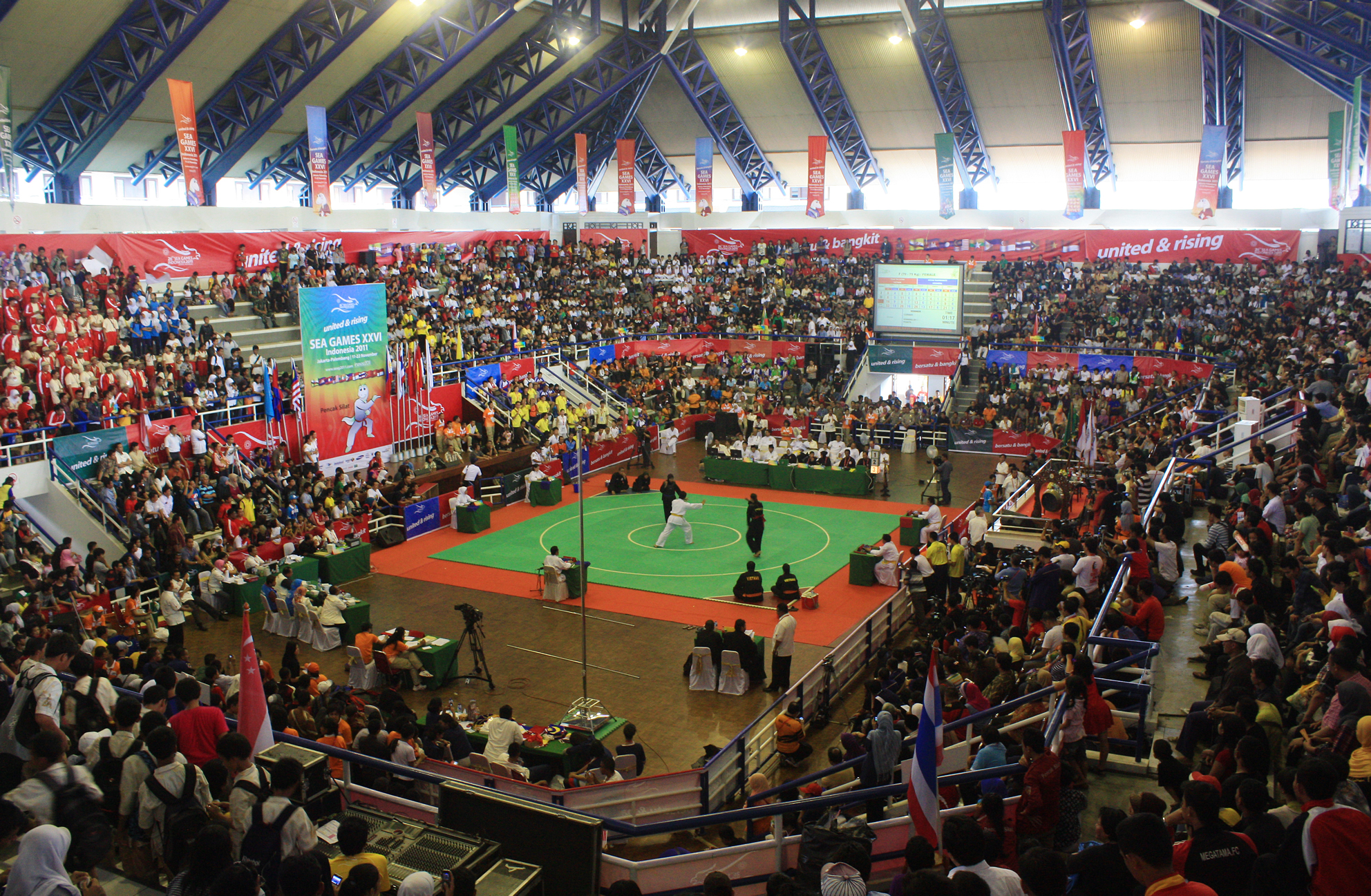 The main arena of Padepokan Pencak Silat (Pencak Silat center) in Taman Mini Indonesia Indah complex, East Jakarta. The main venue of Pencak Silat matches during 26th Southeast Asian Games Indonesia 2011.